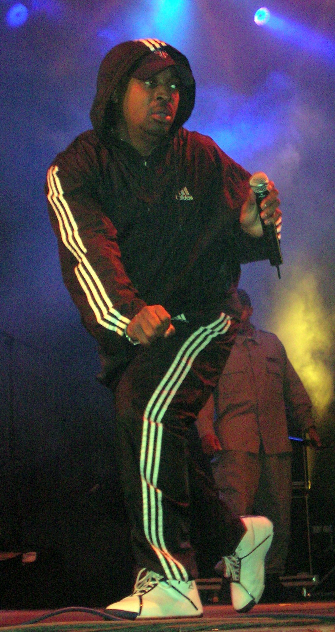 Chuck D, from Public Enemy, performing live at the Bilbao Urban Musikaldia, at Vista Alegre bullring.